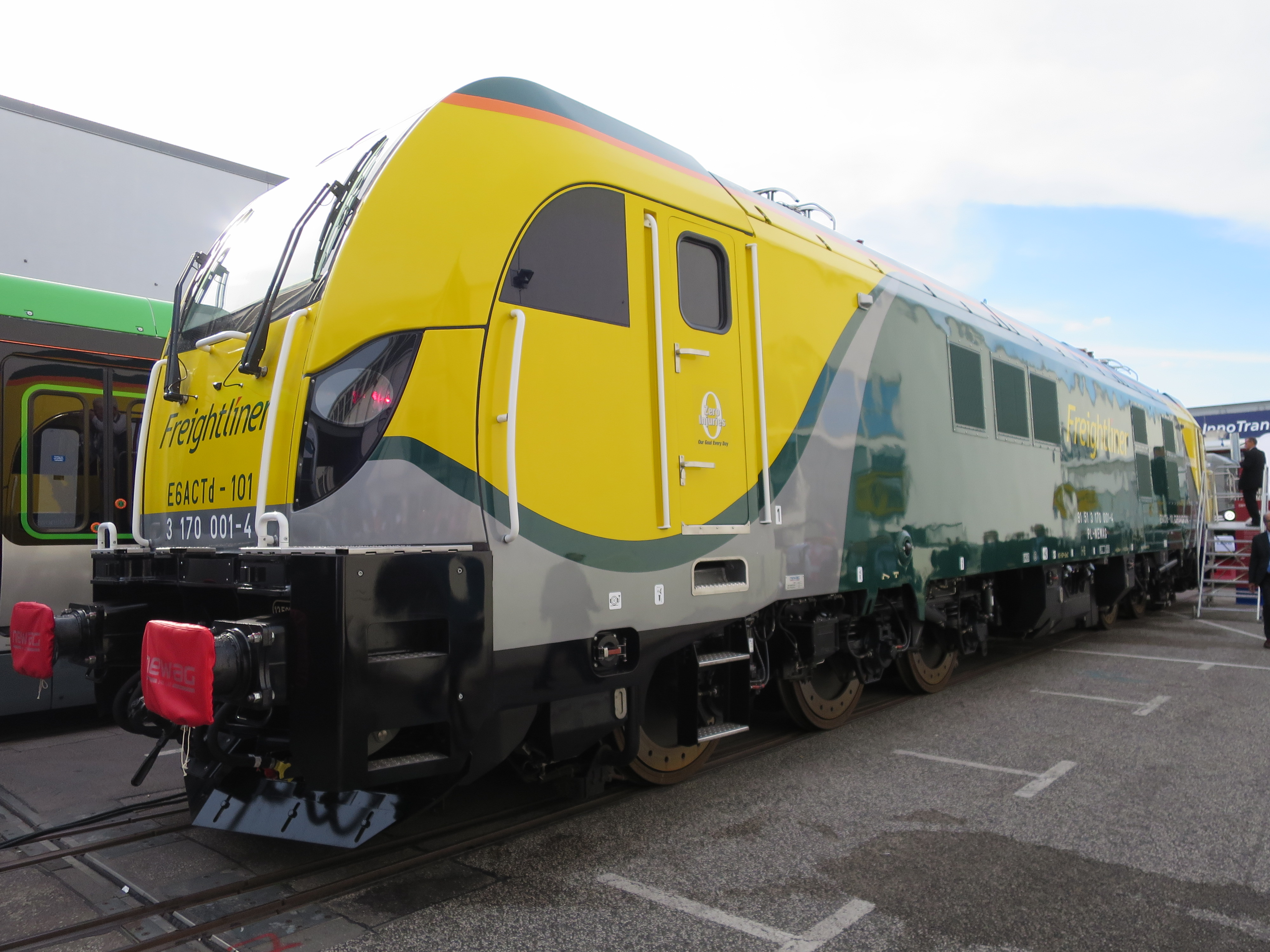 InnoTrans 2016 The making of this document was supported by Wikimedia Polska Association, within Wikigrant no. WG 2016-35.